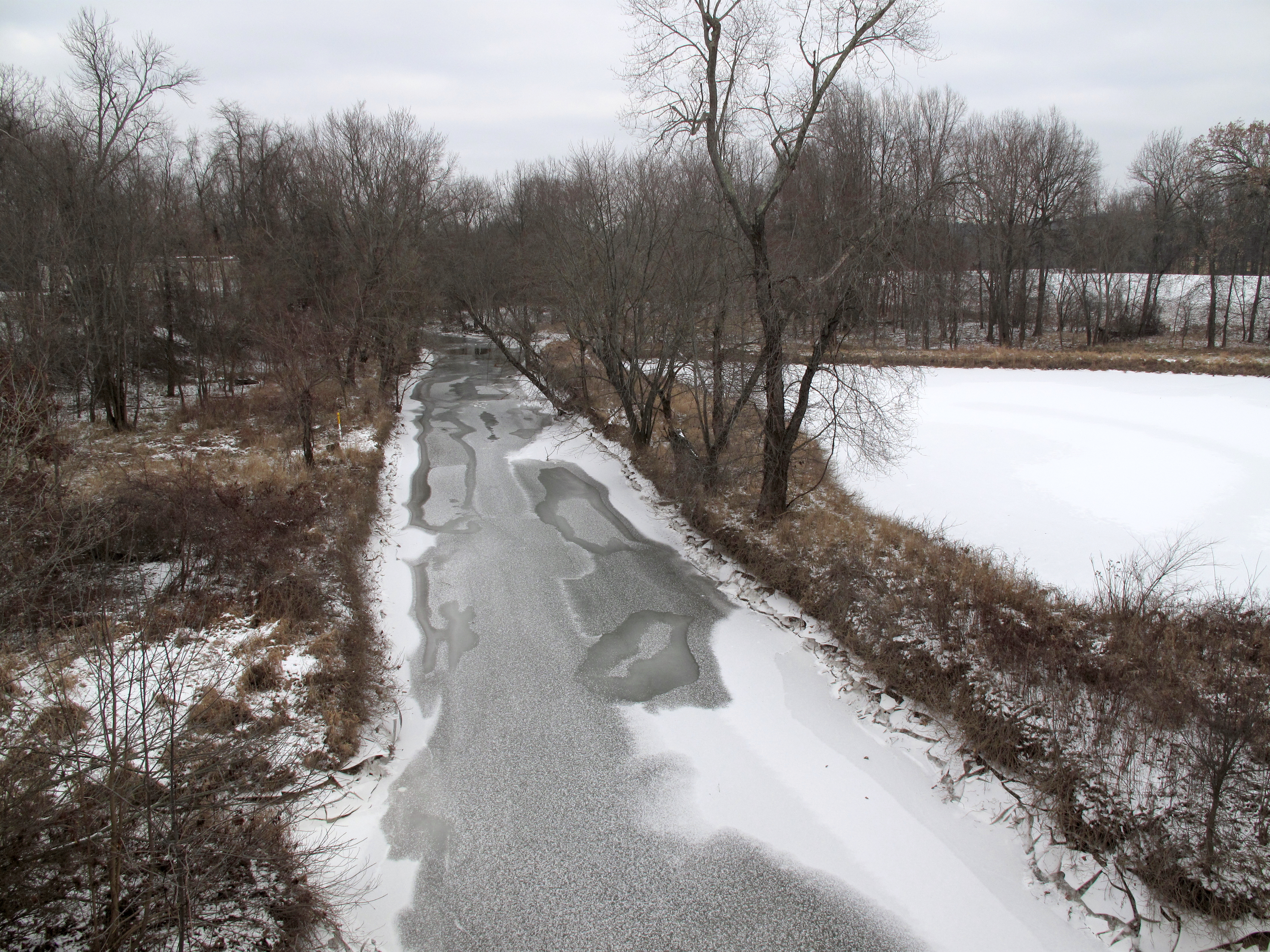 Leatherwood Creek as viewed to the north from Morton Avenue in Cambridge, Ohio.